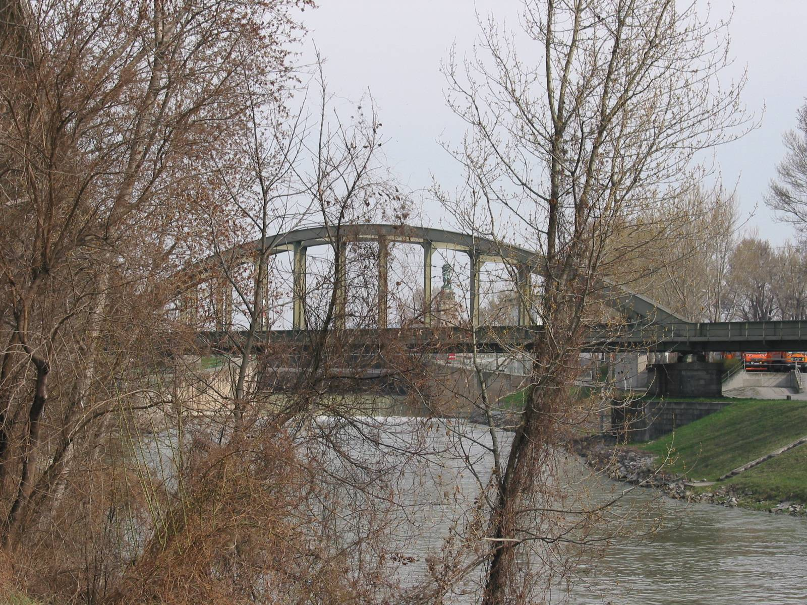 Bridge of Donauuferbahn, Nussdorf, Vienna, 2006-04-09 selfmade photo